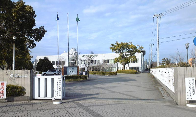 This is a picture of "Tokushimakita High School" taken by me.